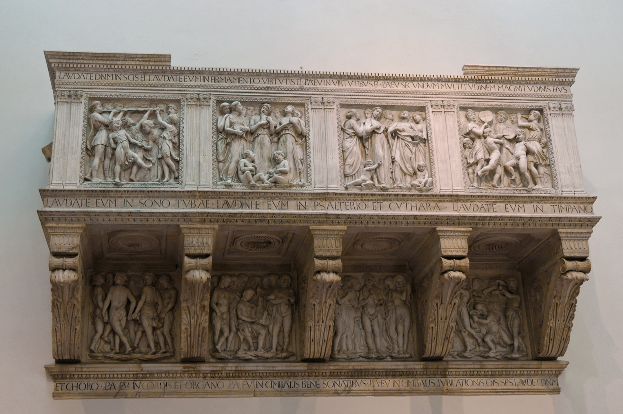 Cantoria (singers' gallery), actually a balcony for the 1438' organ of the Duomo. Decorated with relief panels with children singing, dancing and playing music, illustrating inscripted Psalm 150 ("Laudate Dominum"). Museo dell'Opera del Duomo, Florence, Italy. Marble.